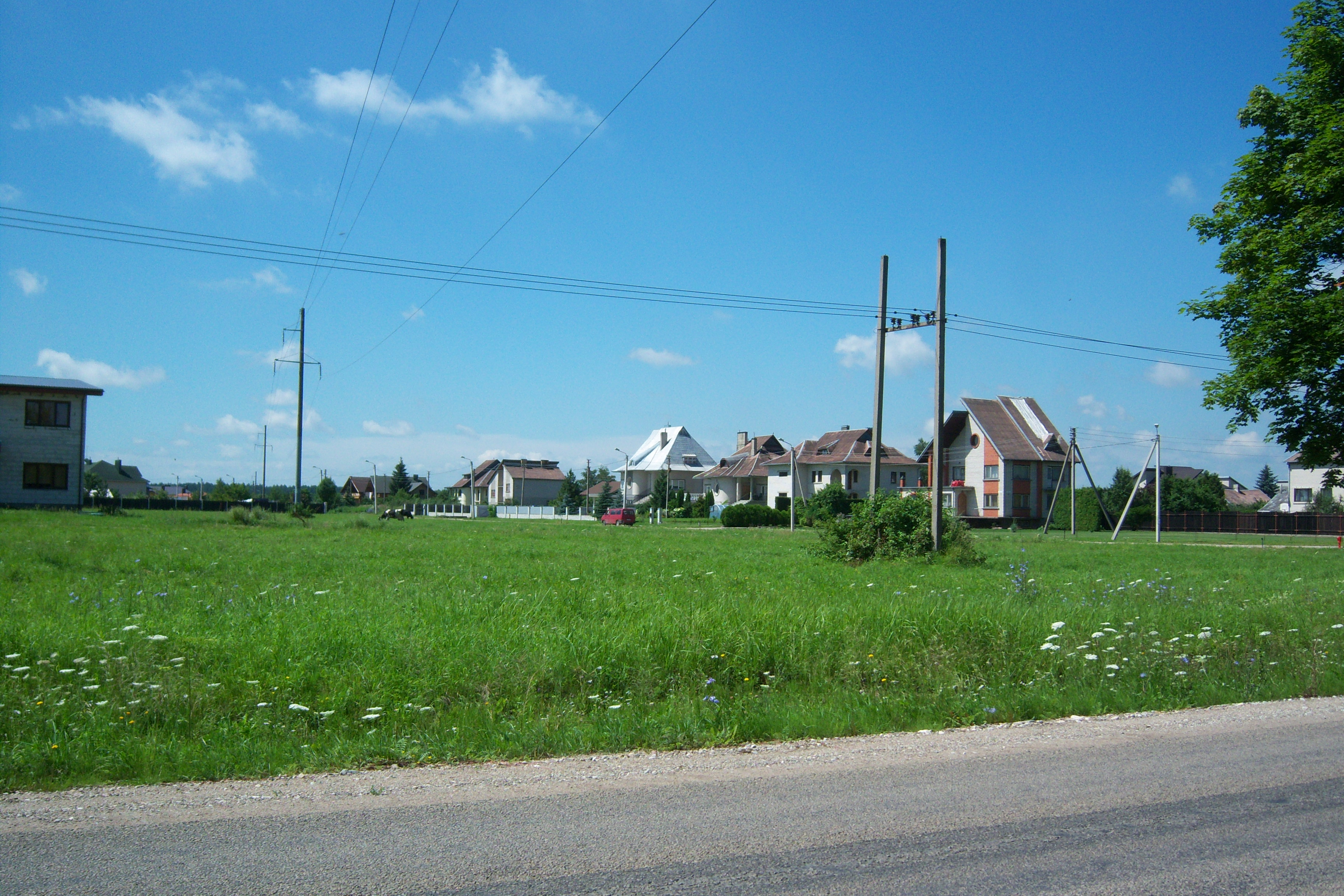 Vaišvydava, Kaunas district, Lithuania